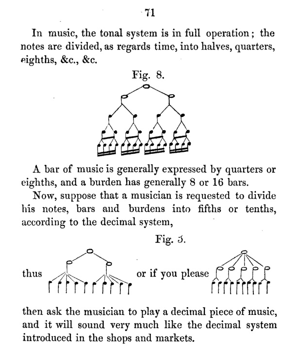 A page from Nystroms "tonal system" book.